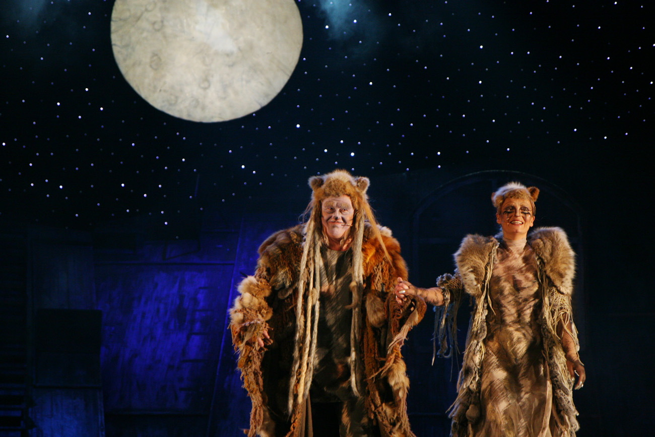 Zbigniew Macias as Old Deuteronomy and Izabela Zając as Grizabella in the musical "Cats" in Roma Musical Theatre in Warsaw, 8 December 2007 r.